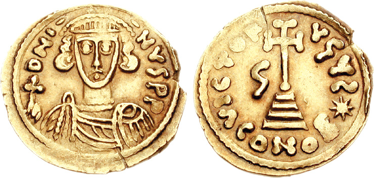 Lombards, Beneventum (nowdays Benevento. Gregory. AD 732-739. Pale AV Solidus (4.02 g, 7h). D N I– –NVS P P, crowned and draped facing bust, holding globus cruciger; crown topped with four pellets VICTOR- VGYS (S retrograde) (star), cross potent on globe on three steps; G in left field; CONOB. CNI XVIII 6; BMC Vandals p. 159; cf. MEC 1, 1089. VF, toned, hairline flan crack, slightly ragged flan. From the Marc Poncin Collection.